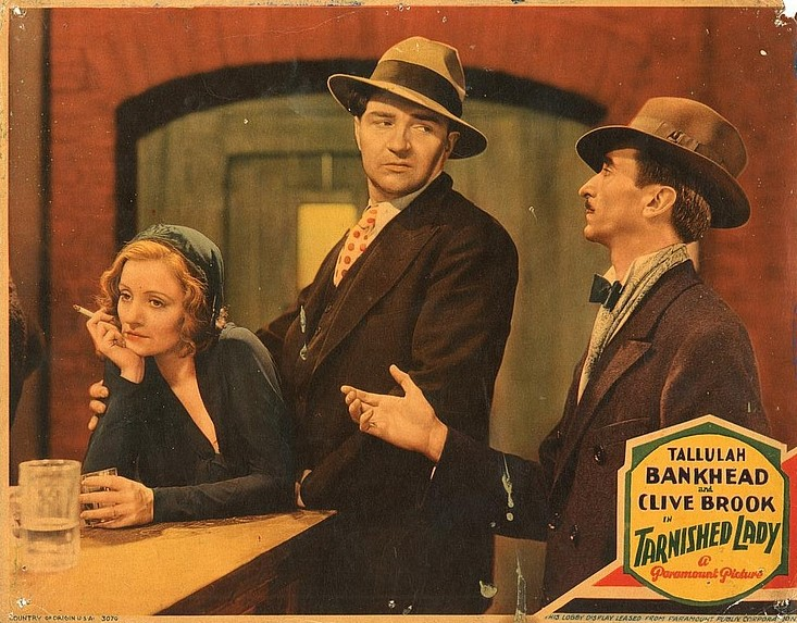 L. to R. : Tallulah Bankhead, Edward Gargan & Osgood Perkins in Tarnished Lady - lobby card (cropped)